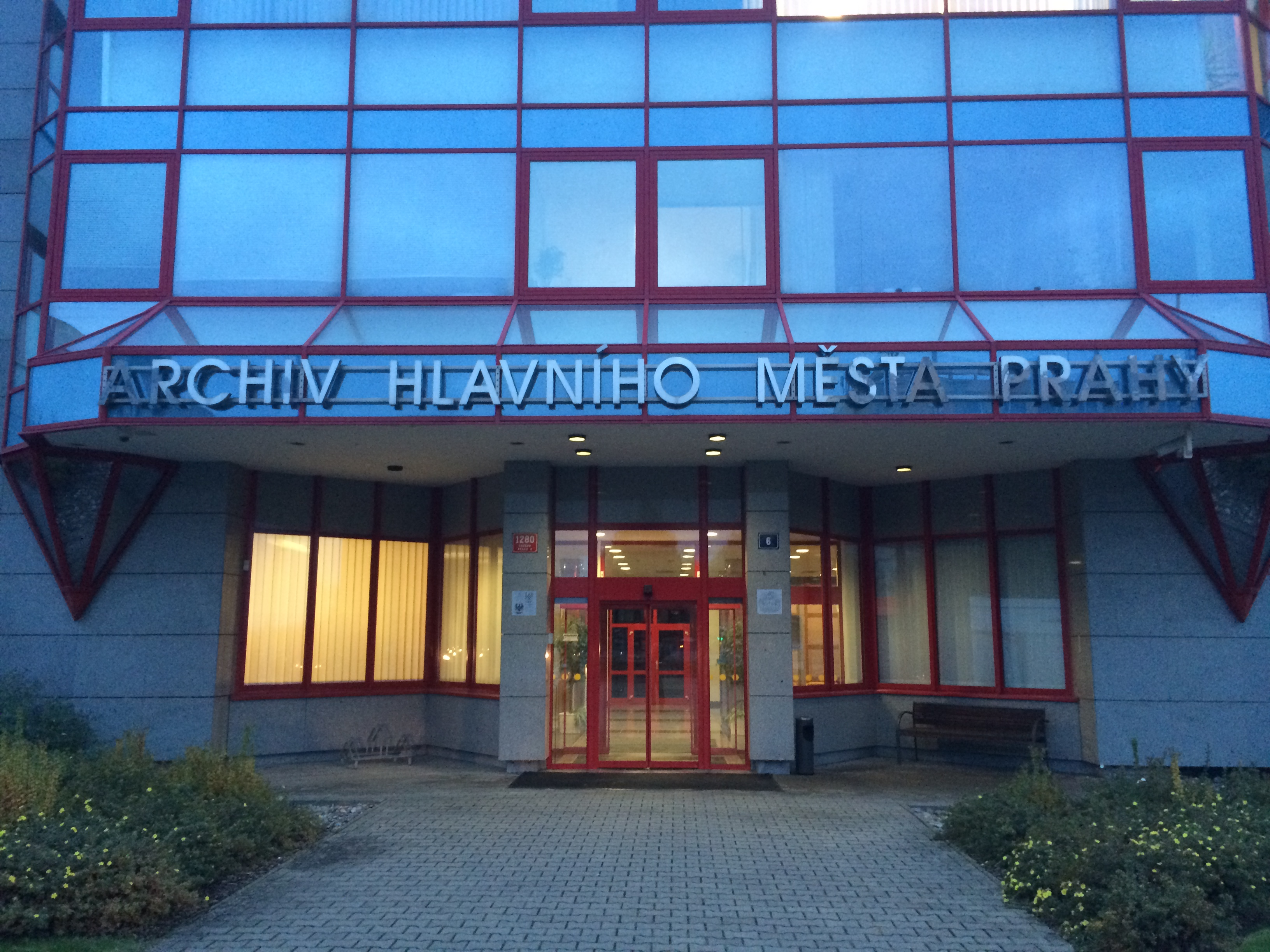 Prague City Archives